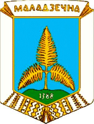 Coat of arms of Maladzechna 1988-1999, Belarus